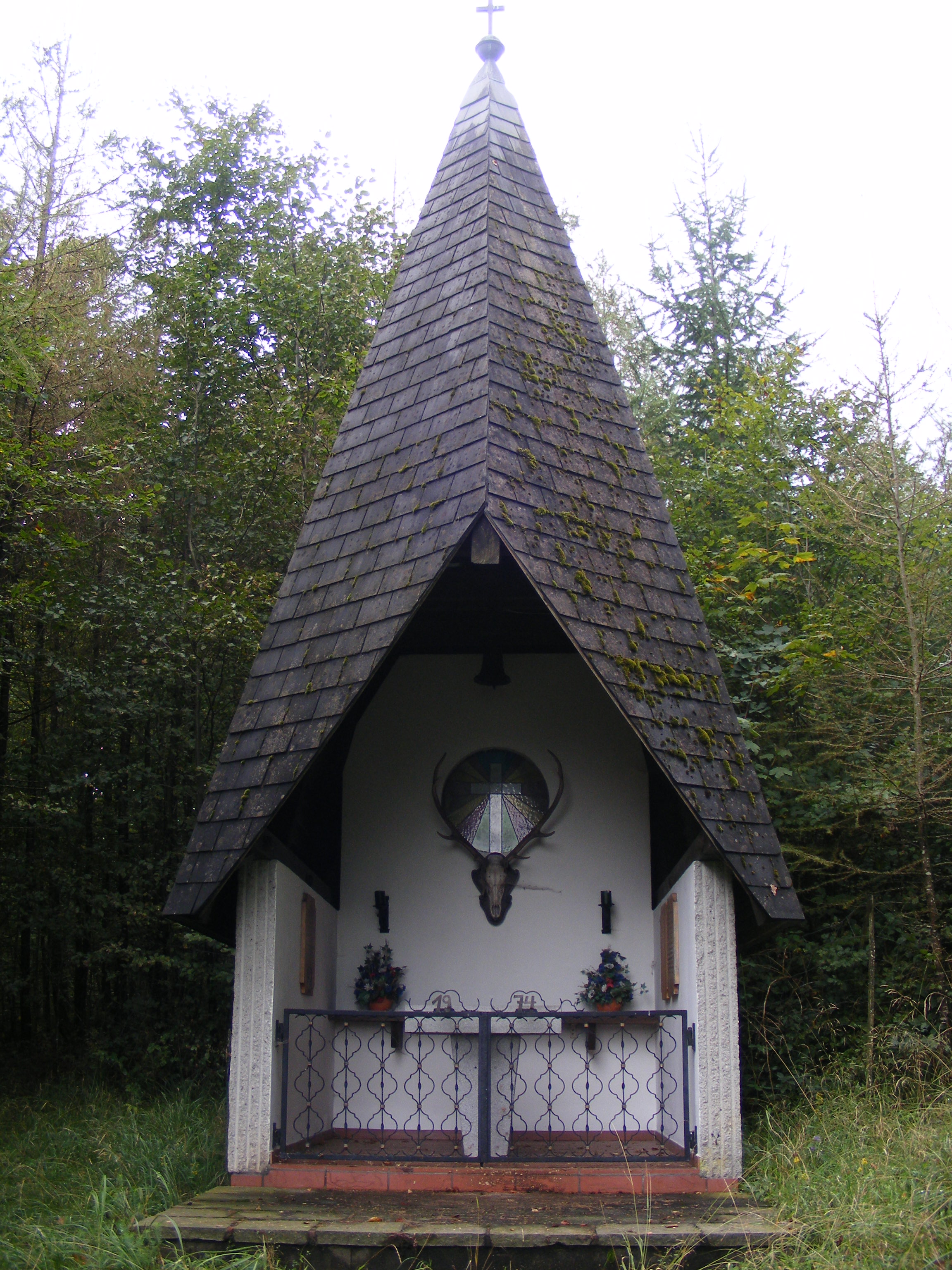 St. Hubert's chapel, Lamprechtshausen, district of Salzburg-Umgebung, state of Salzburg, Austria